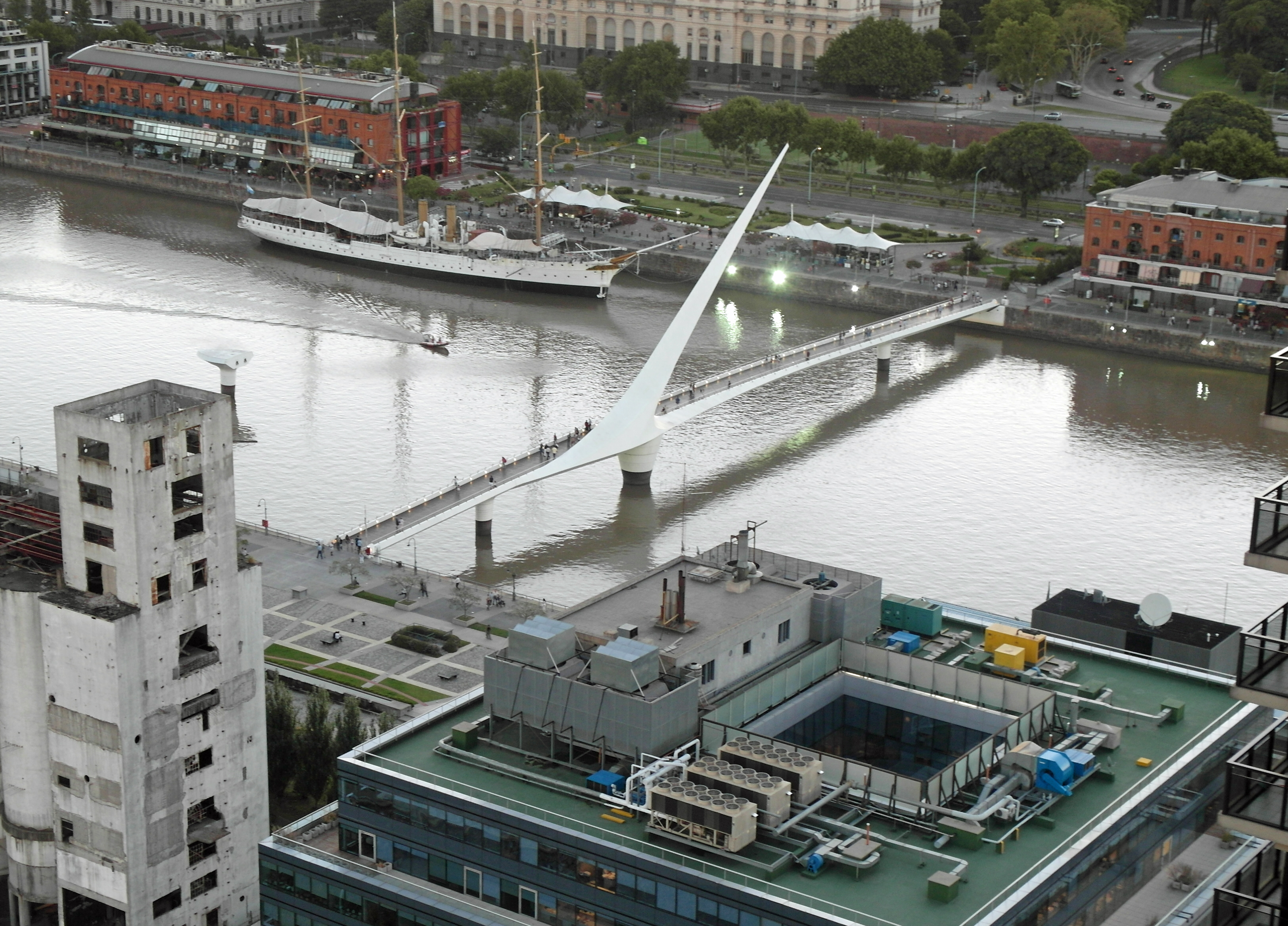 Puente de la Mujer, Buenos Aires, Argentina